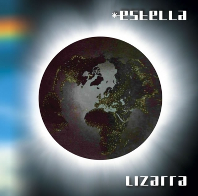 Artwork for the Album Lizarra by Estella